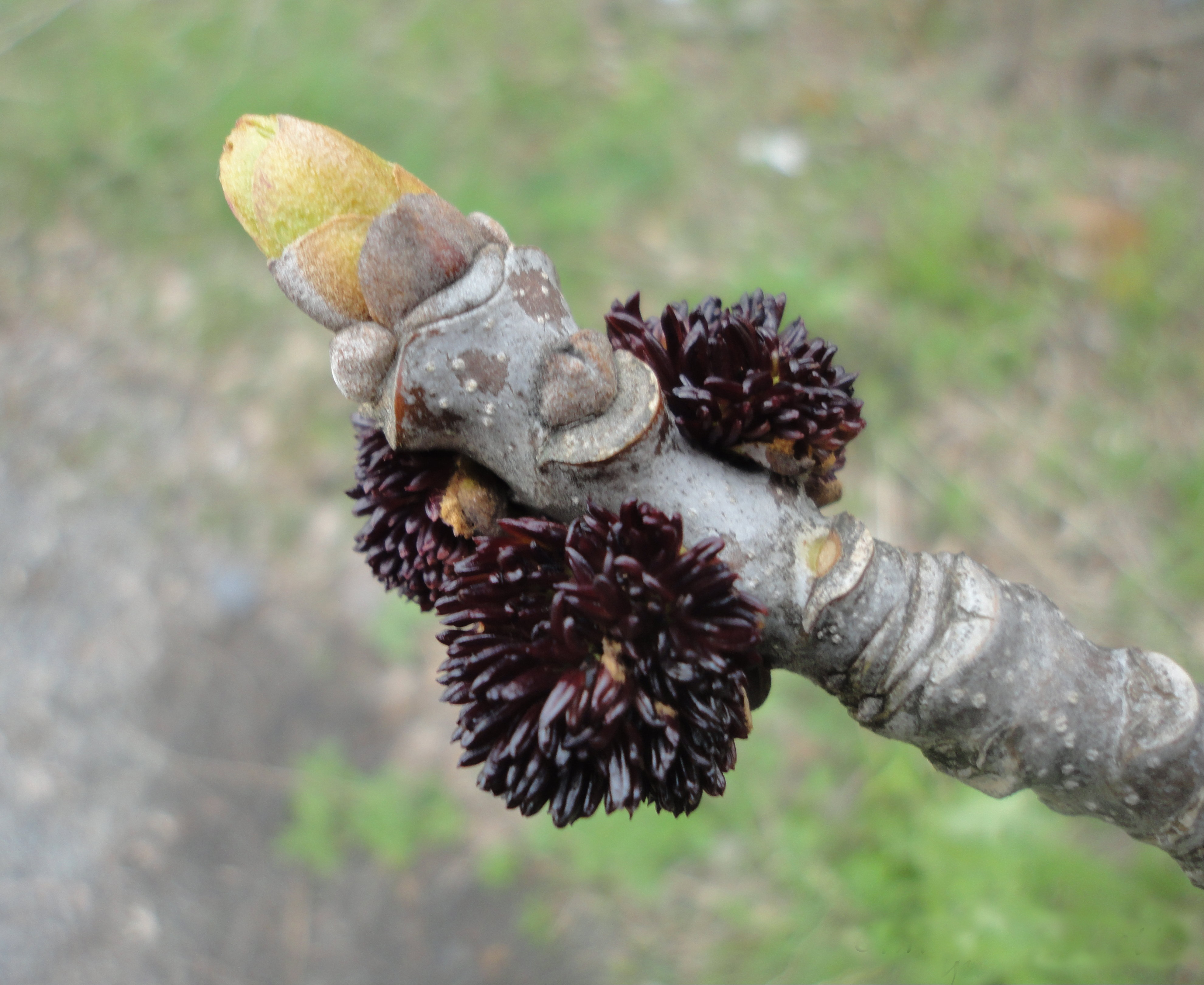 White Ash Fraxinus americana (Oleaceae). Quebec, Canada.